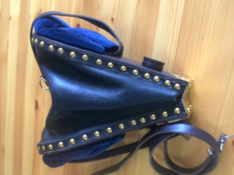 bellows from side Picture courtesy by Marc van Daal.